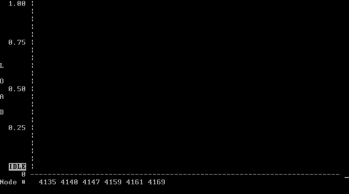 A six node CHAOS/openMosix cluster: The mosmon view with no load